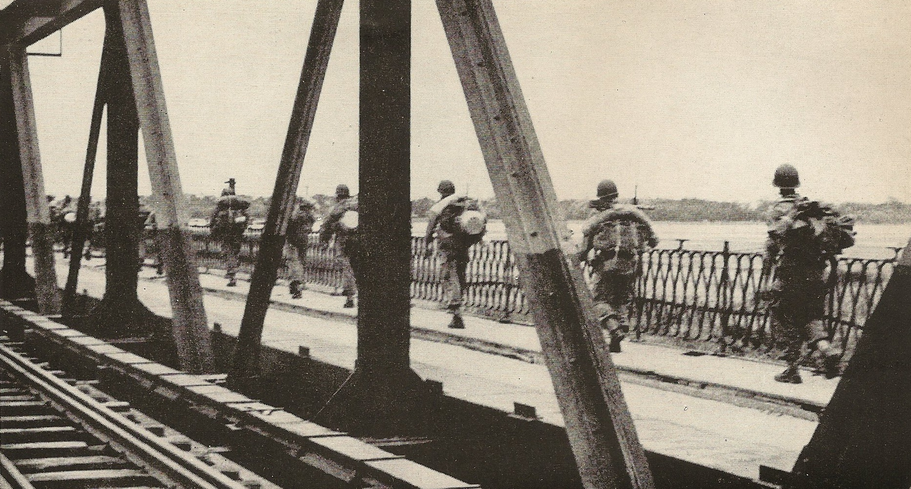 French Troops on a bridge in Vietnam